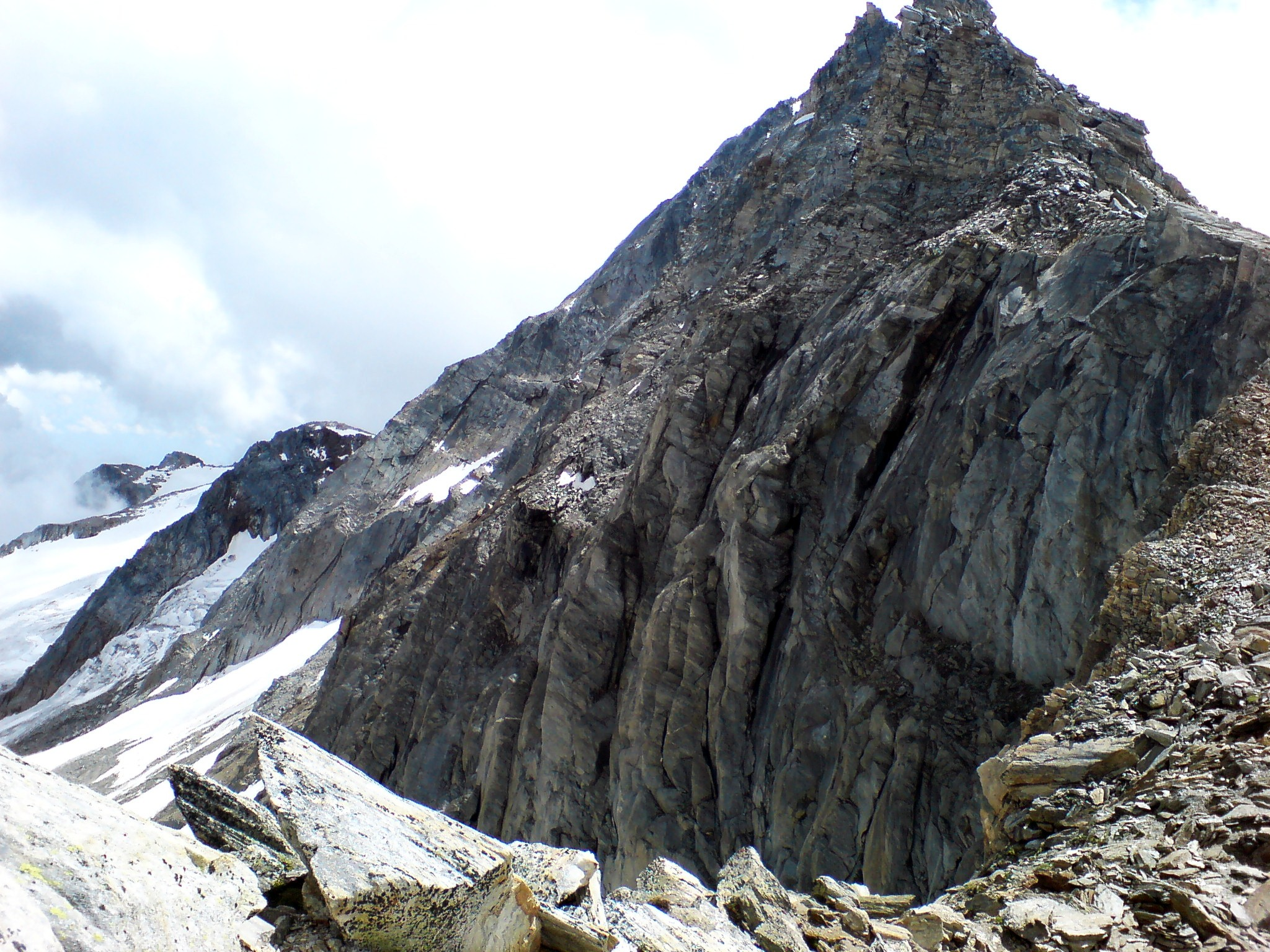 Zwischbergenpass and Portjengrat (above Saas Almagell)